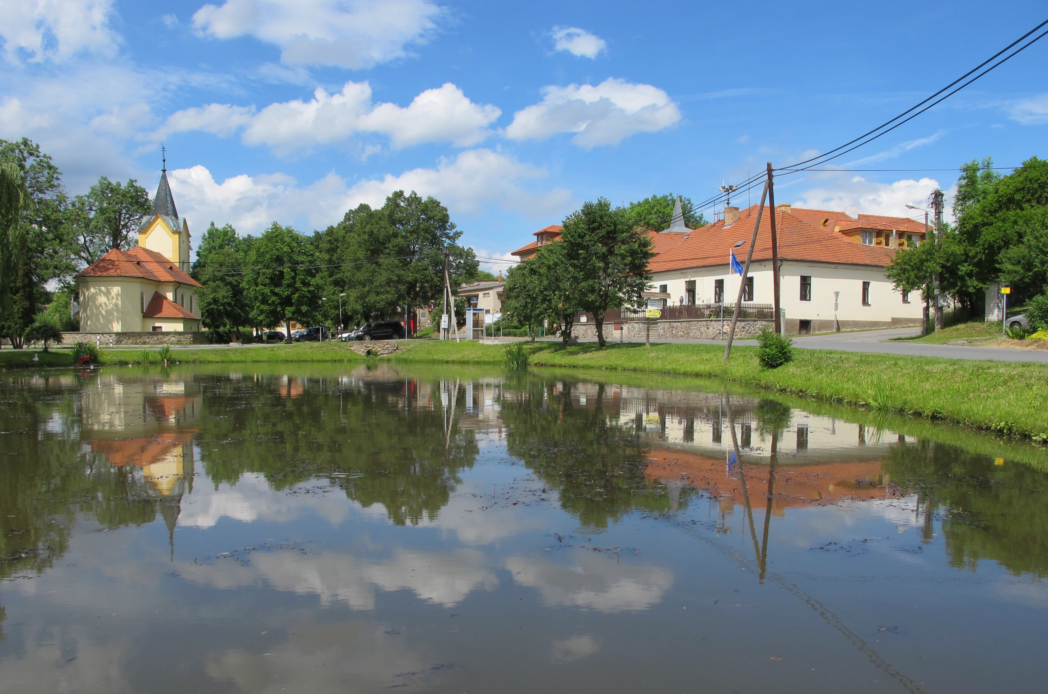 Pond and Church of Assumption of Mary in Kytín in Prague-West District